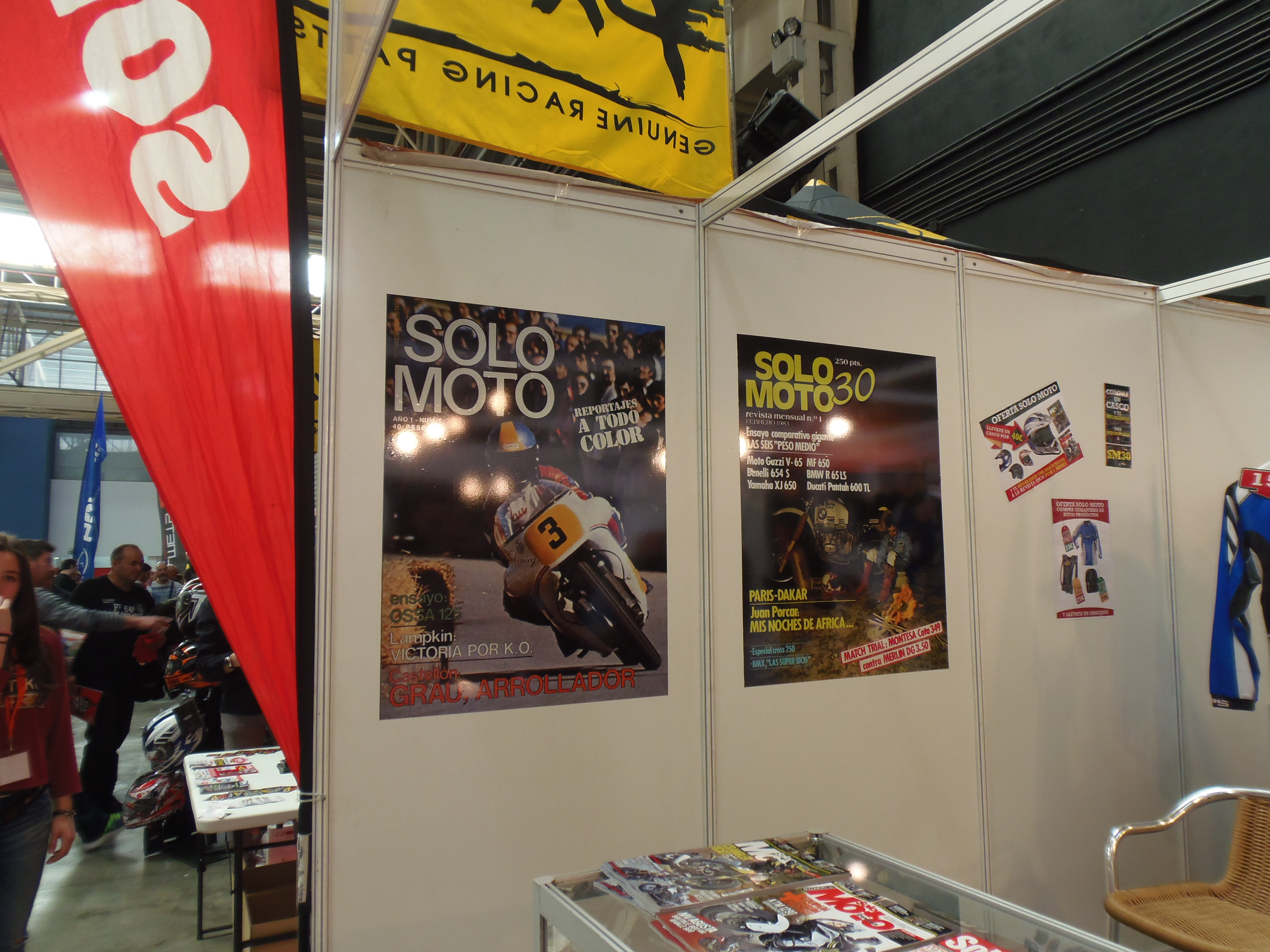 The stand of Solo Moto at 2015 BCN Moto